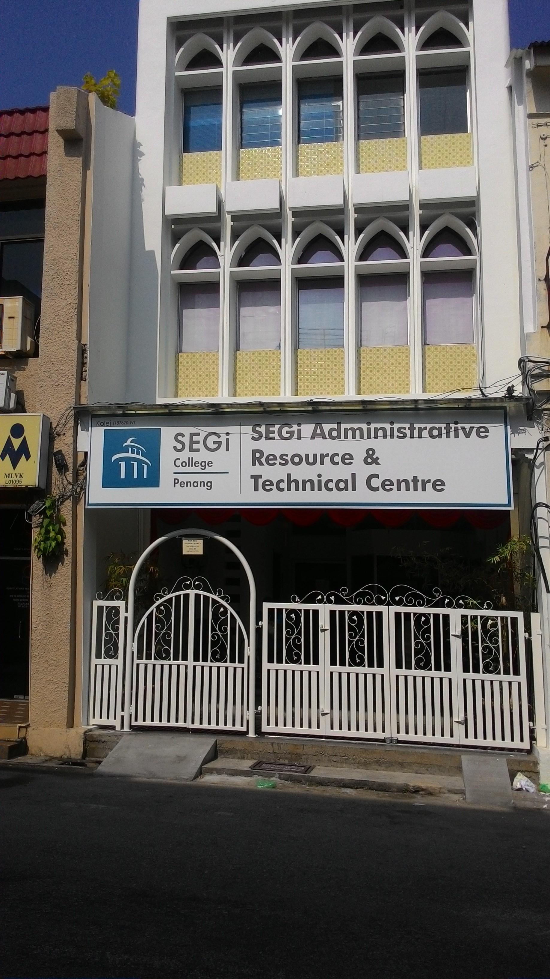 SEGi Penang Administrative resource & Technical center, which also house the deputy principle office